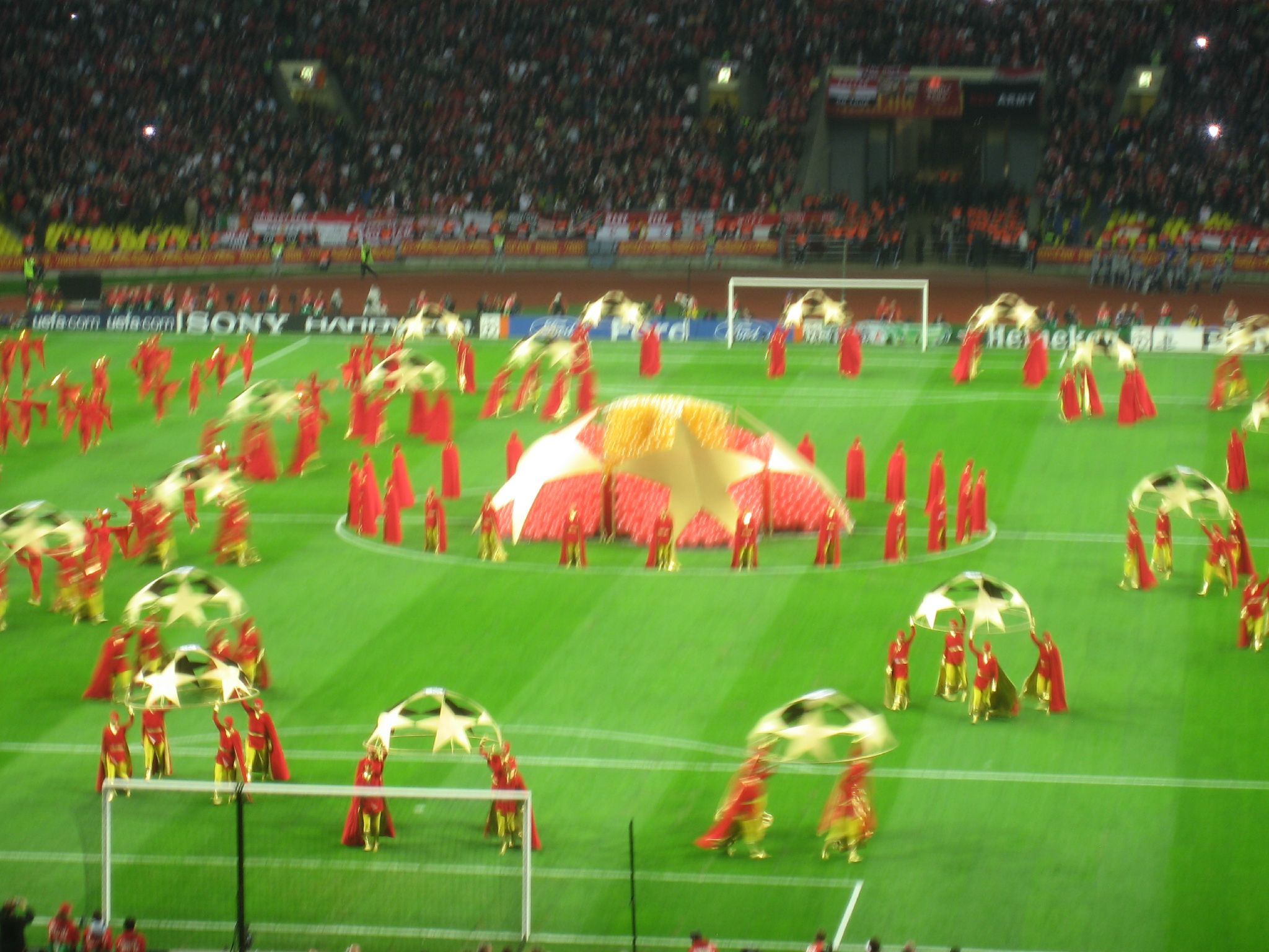 UEFA Champions League 2007-08 Final opening ceremony